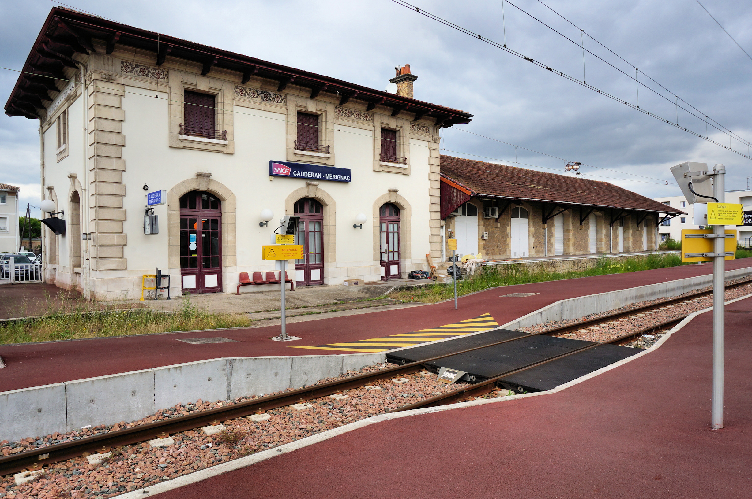 Cauderan-Merignac railway station, in Gironde, France.